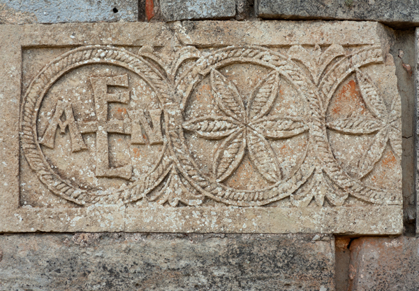 Ermita; Quintanilla de las Viñas, Castilla y León, Burgos, Spain; parte este abside, pared 3, detalle ornamental del muro exterior (bajorelieve); ref: PM_073261_E_Quintanilla_de_las_Vinas; Ermita de Santa María; Photographer: Paul M.R. Maeyaert; © Paul M.R. Maeyaert; ; Cultural heritage; Europeana; Europe/Spain/Quintanilla de las Viñas